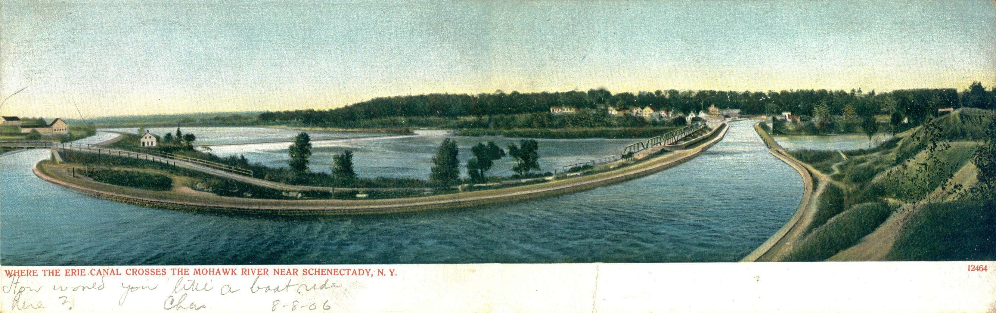 Erie Canal, crossing the Mohawk River, at Rexford